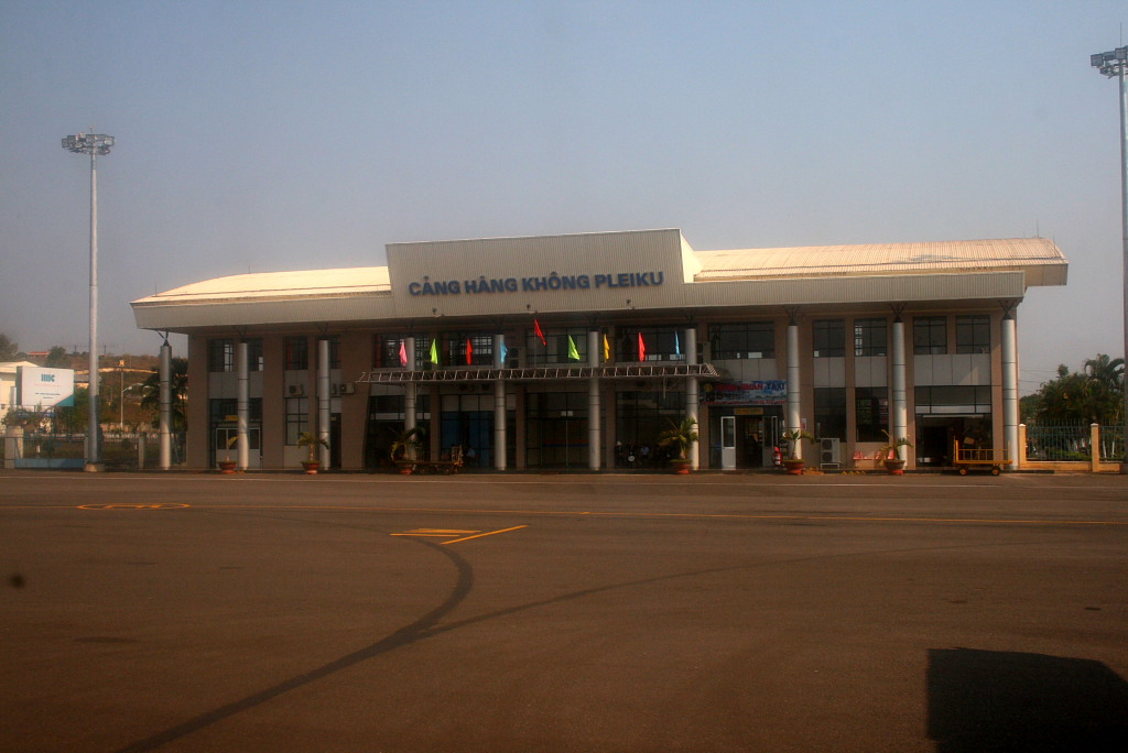 Pleiku Airport in Pleiku, Vietnam